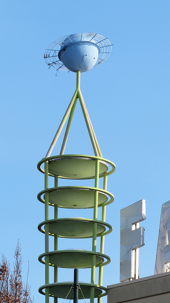 Googie-style space needle at Pickering Town Centre, Pickering, Ontario, Canada.